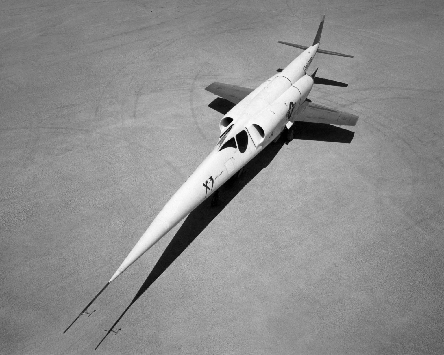 This National Advisory Committee for Aeronautics (NACA) High-Speed Flight Station (now known as the NASA Armstrong Flight Research Center) photograph shows a side-view of the X-3 Stiletto research aircraft on the ramp at Edwards Air Force Base in 1954. The X-3 Stiletto was a single-place jet aircraft with a slender fuselage and a long tapered nose, manufactured by the Douglas Aircraft Company.